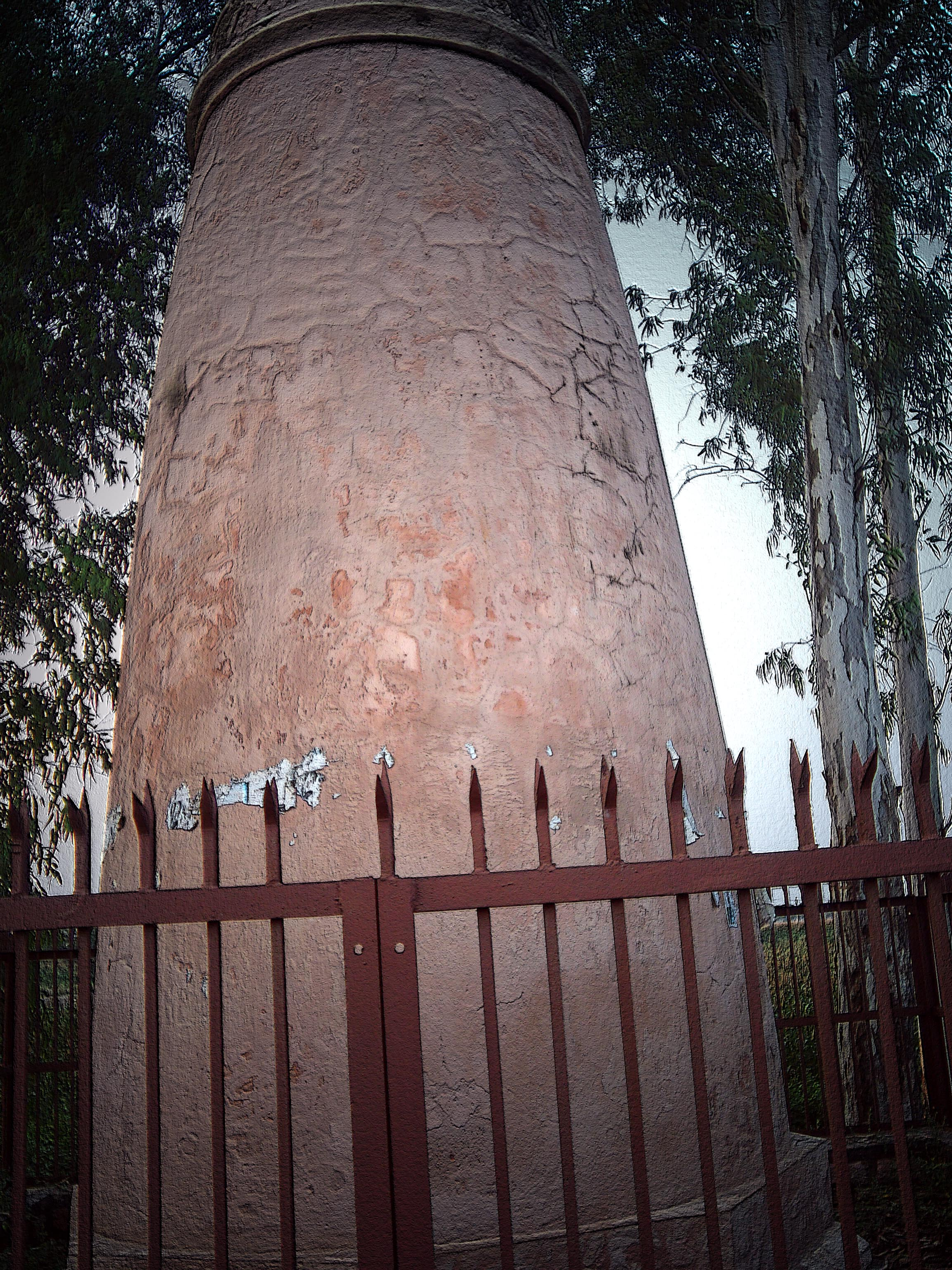 Agra-Fatehpur Sikri Road, Mile12,Furlong 07